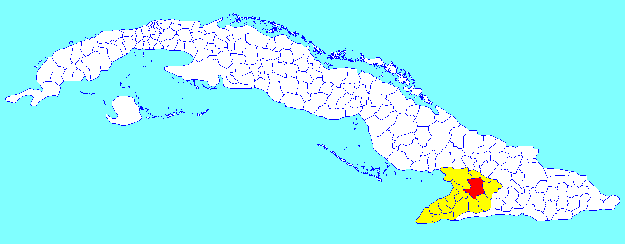 A map of the municipality of Bayamo (shown in red) within the Province of Granma (yellow) and Cuba.